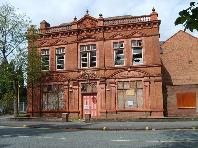 Bilston Technical School Now disused and boarded up. This is a locally listed building.